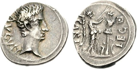 Augustus. 27 BC-AD 14. AR Quinarius (1.84 g, 10h). Emerita mint. P. Carisius, legate. Struck circa 25-23 BC. AVGVST, bare head right P CARIS-I LEG, Victory, draped, standing right, with both hands placing wreath on a trophy, consisting of helmet and cuirass; against base of trophy, a dagger to left and a curved sword with hilt closed by a bar to right. RIC I 1a; RSC 386; BMCRE 293-4 = BMCRR Spain 121-2; BN 1065-70.